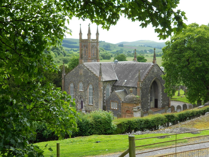 Glencairn Kirk